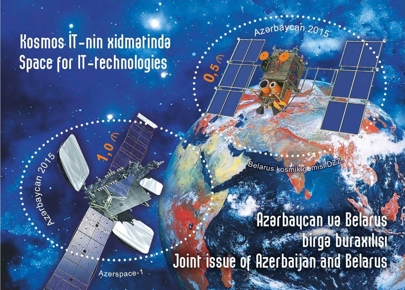 Space for IT- technologies. Joint issue of Azerbaijan and Belarus. N 1236 - 50 qapik – Illustration of the Belarusian "BKA-1" Earth observation satellite. N 1237 – 1 manat – Illustration of the Azerbaijani "Azerspace-1" telecommunications satellite.